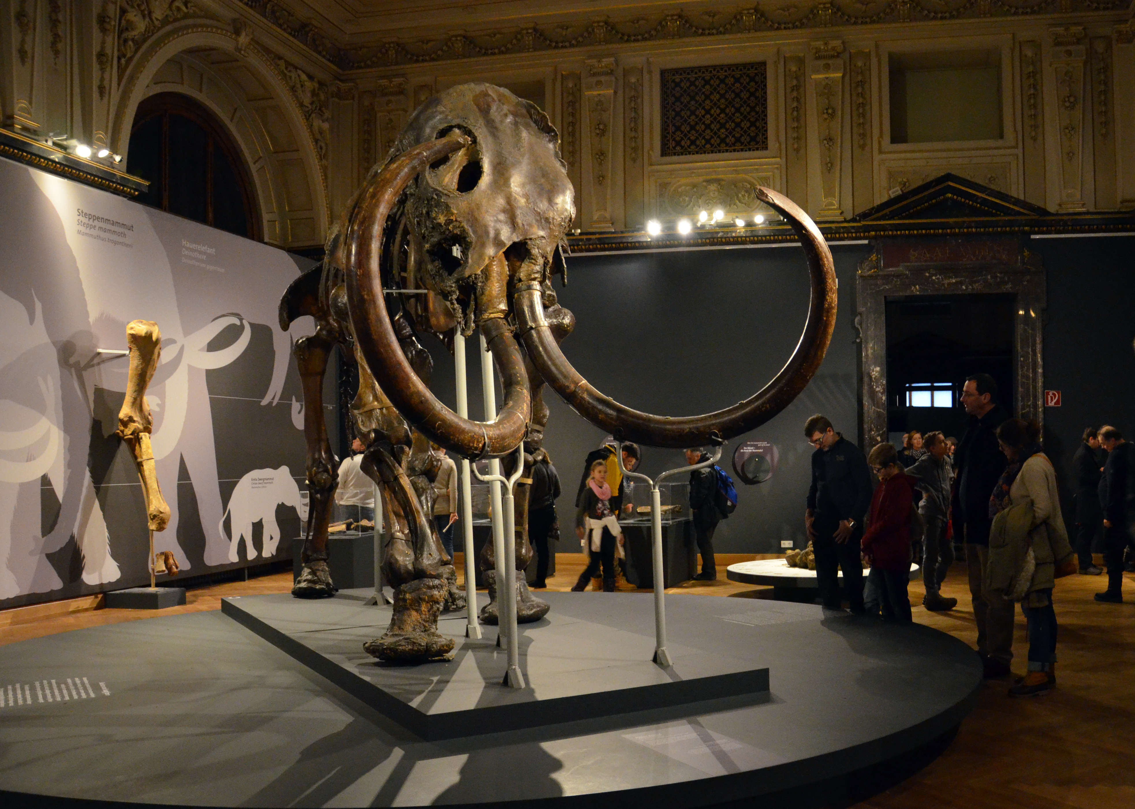 Nature history museum, Vienna (3)